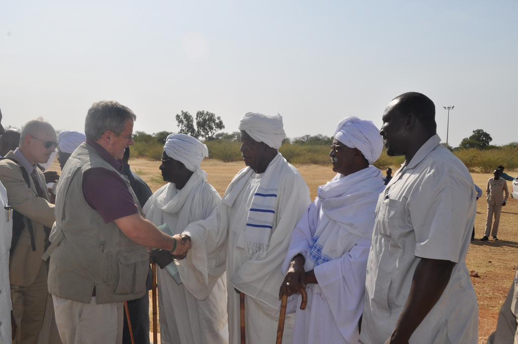 SE Gration greets Misseriya tribal elders in Muglad, Sudan.